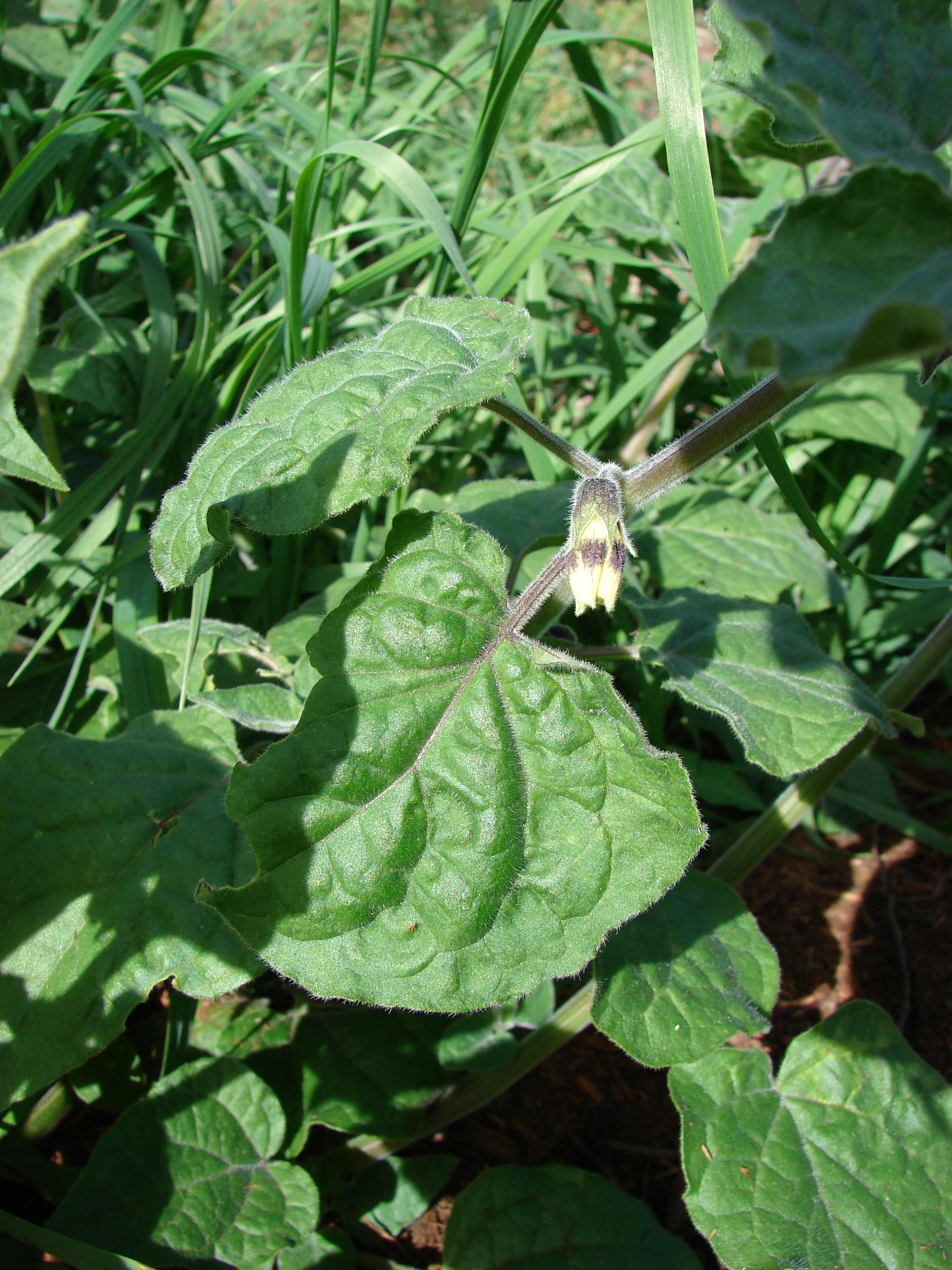 Physalis peruviana (leaf and flower). Location: Maui, Olinda